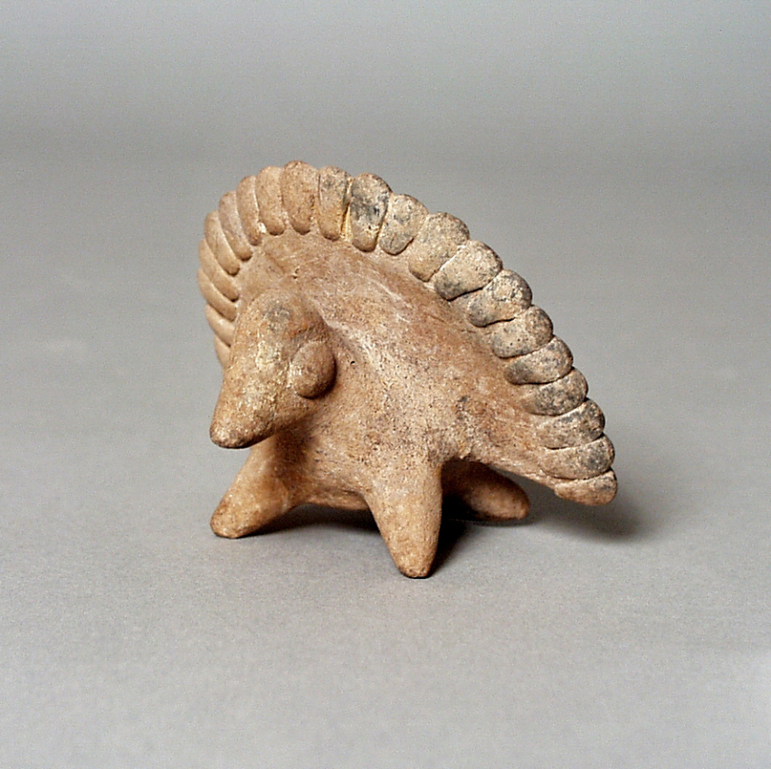 Mexico, Colima, Colima, 200 B.C. - A.D. 500 Tools and Equipment; musical instruments Unslipped buff ceramic The Proctor Stafford Collection, purchased with funds provided by Mr. and Mrs. Allan C. Balch (M.86.296.172) Art of the Ancient Americas